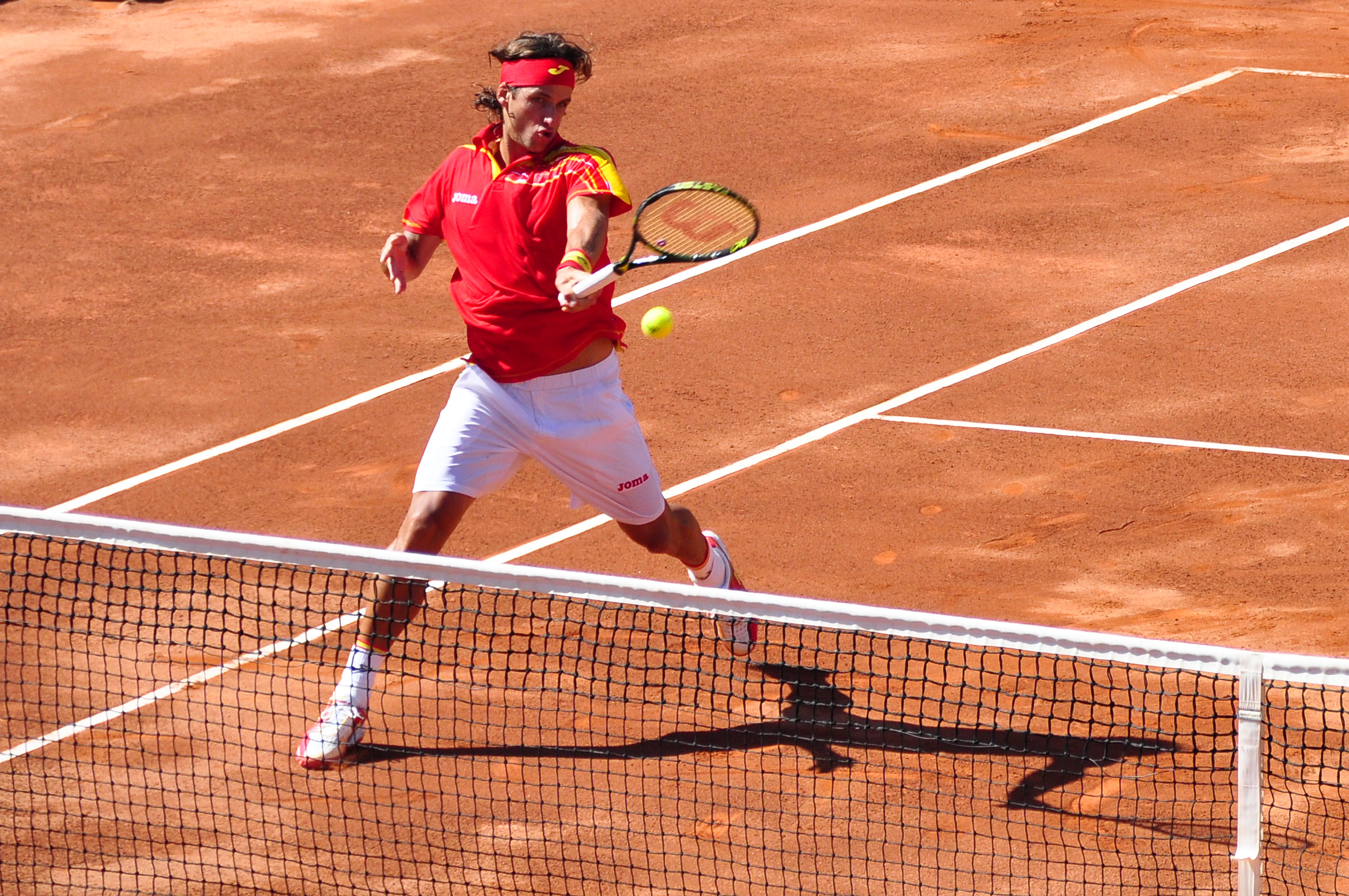 Feliciano López and Fernando Verdasco (unseen) against Nicolas Kiefer and Mischa Zverev (unseen) in the 2009 Davis Cup semifinals (Spain vs. Germany)